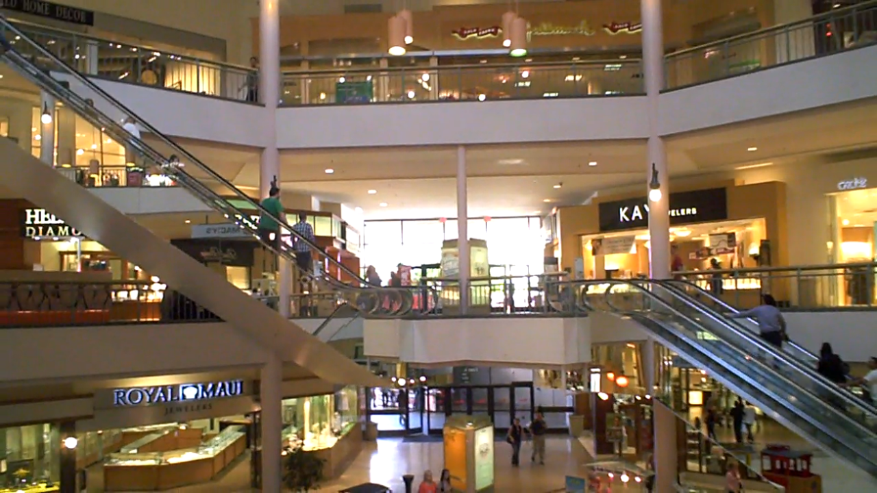 The three-level central court of Westfield North County in Escondido, CA.